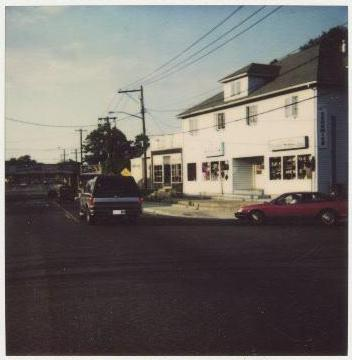 Photograph of New York State Route 112 at the intersection of Railroad Avenue & Ohio Avenue approaching the bridge for the Main Line of the Long Island Railroad in Medford.